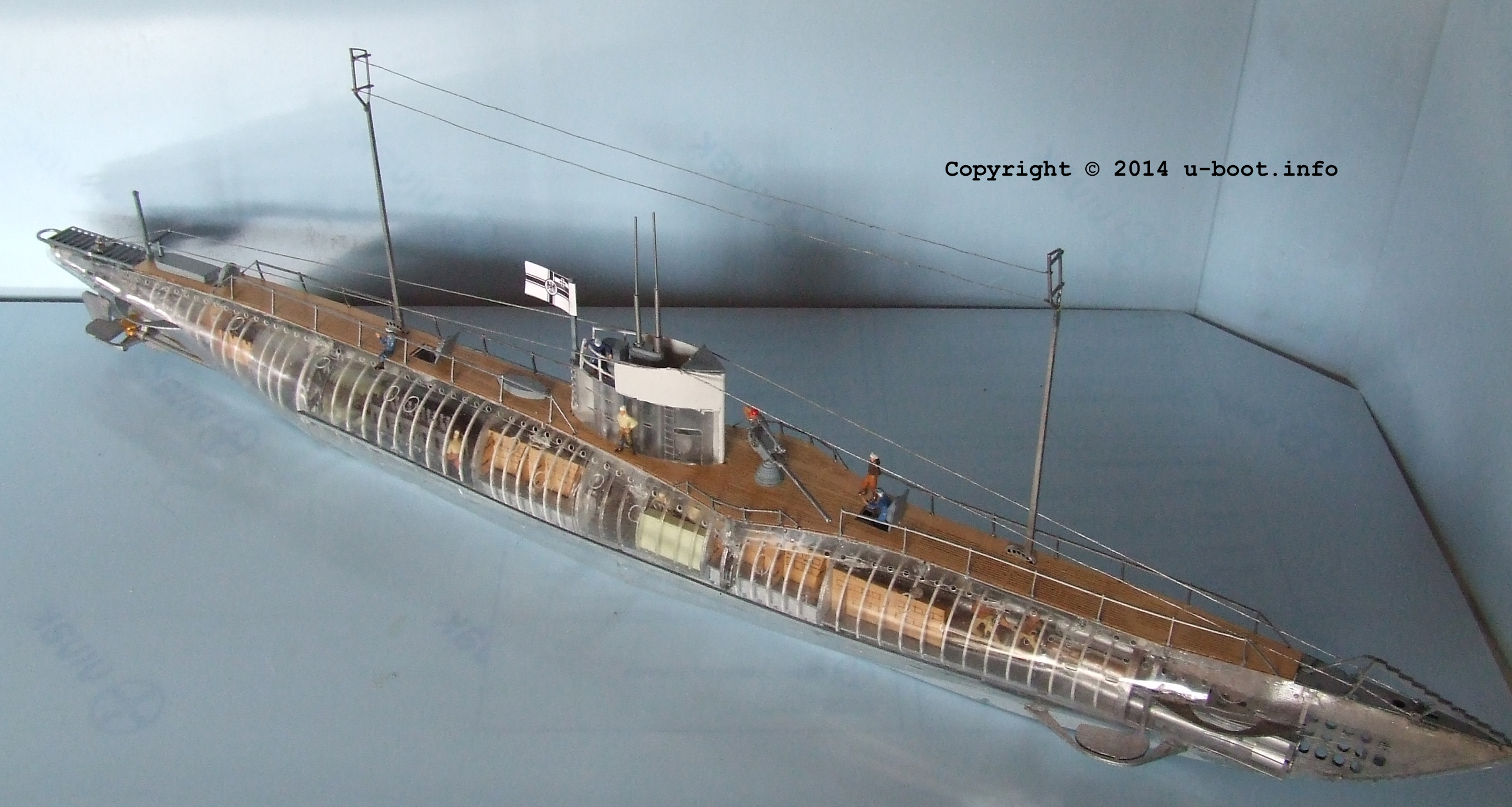 UB III submarine model 1